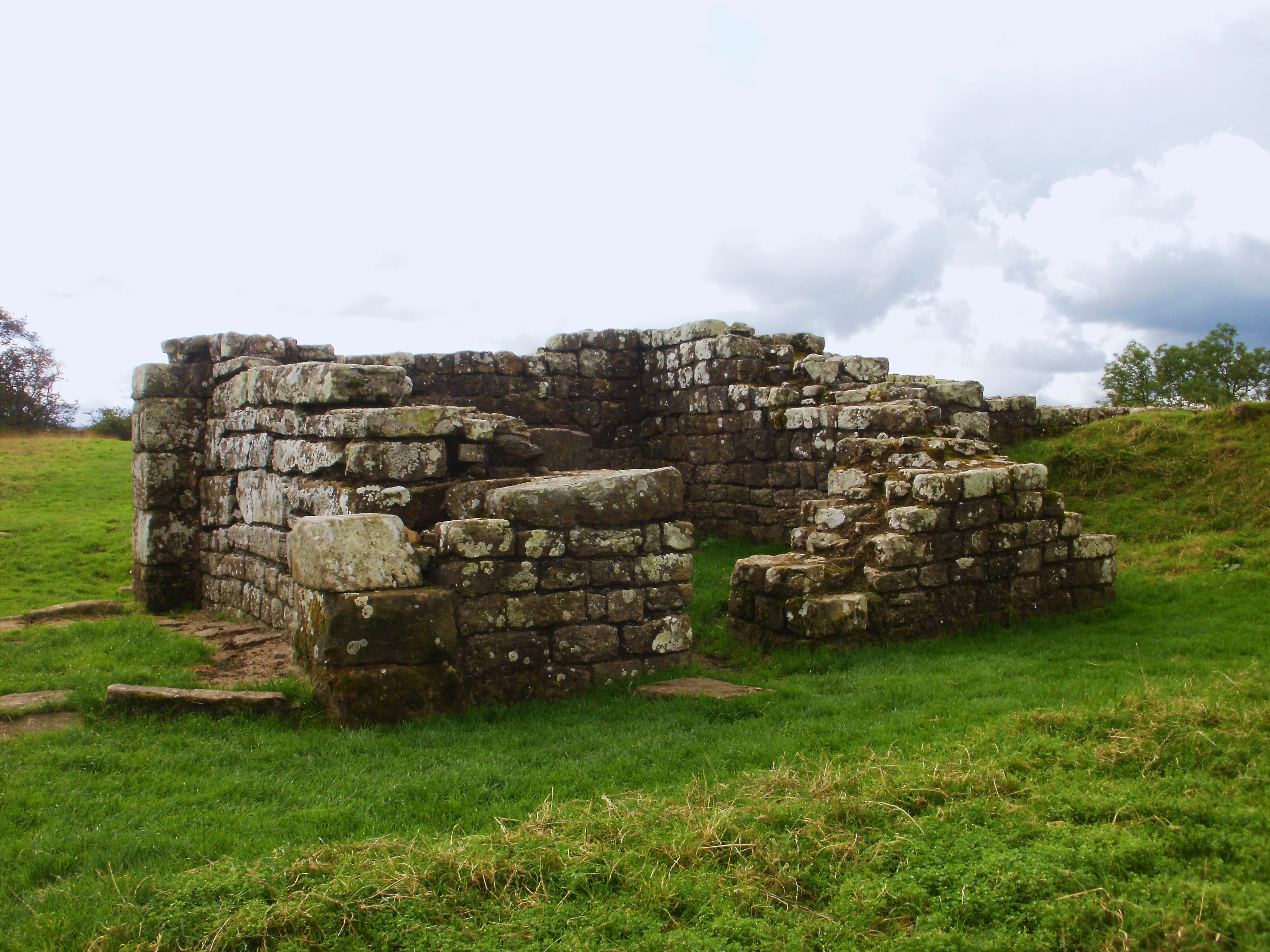 An image of the gate at the southern end of Birdoswald Roman Fort, Northumberland, northern England.